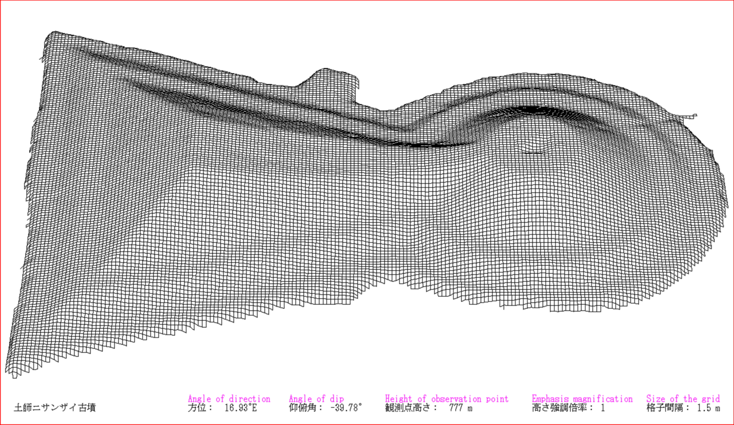 I who am a contributor drew the picture by a software which developed by myself. The survey map which I referred to depends on "「ニサンザイ古墳」『百舌鳥古墳群測量図集成』堺市 (2015年）". This is a drawing of present situation (not a drawing of a restored mound). The drawing depends on wire frame. Perspective projection.